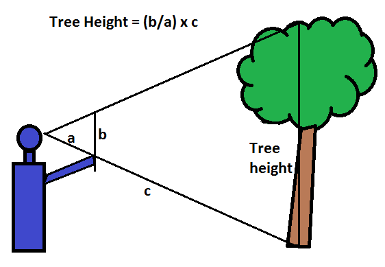 Diagram of the stick method of measuring tree height using the principle of similar triangles